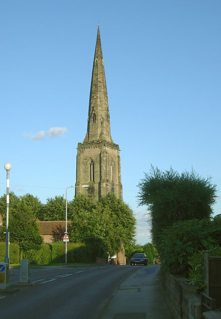 West tower and broach spire of All Hallows parish church, Gedling, Nottinghamshire. Note the entasis (curvature) of the spire, applied to correct perspective distortion.